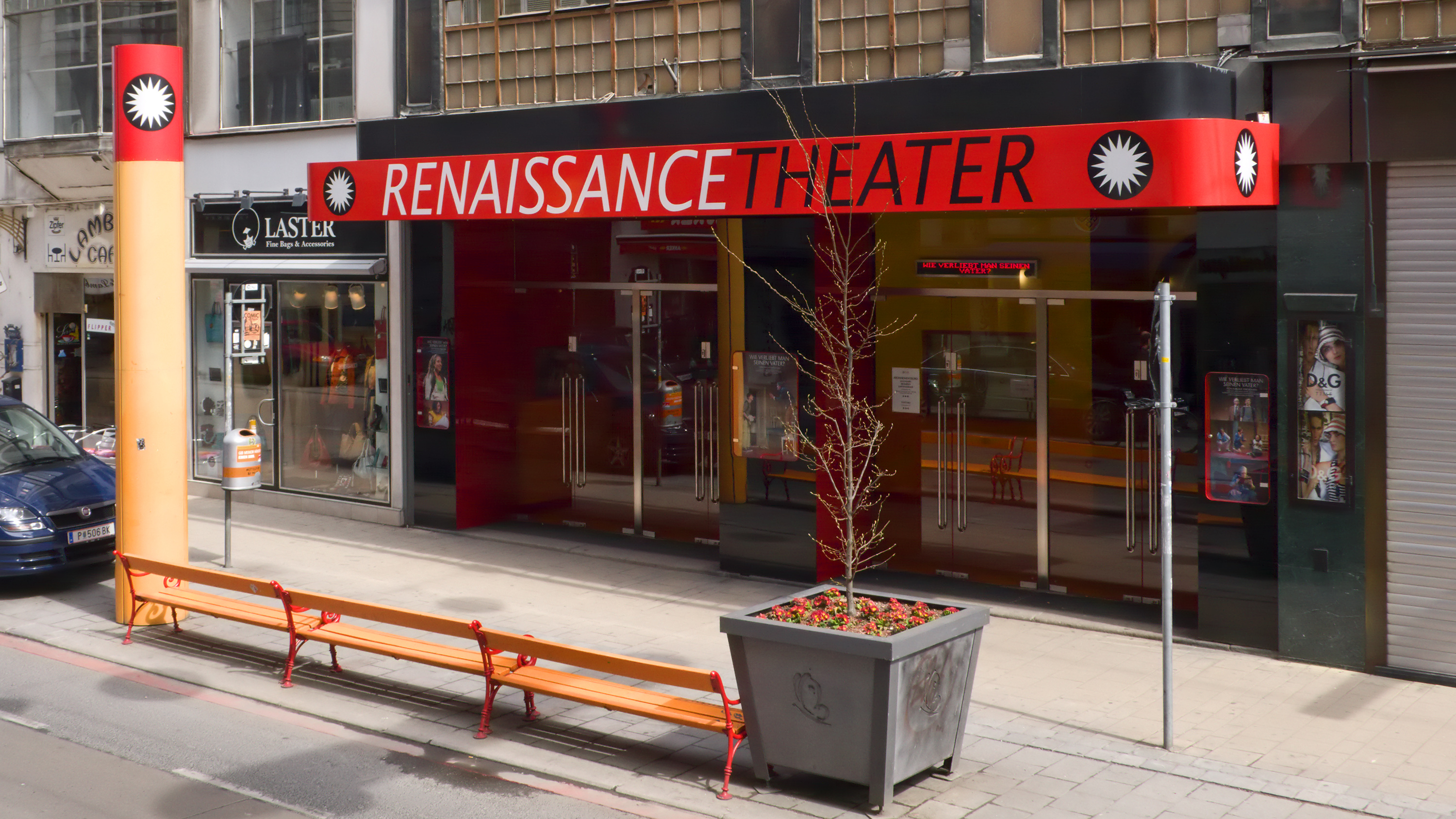 Renaissancetheater (Wien) in Vienna Neubau